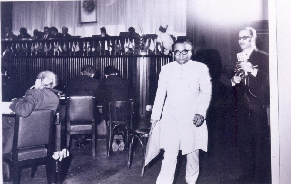 Summit